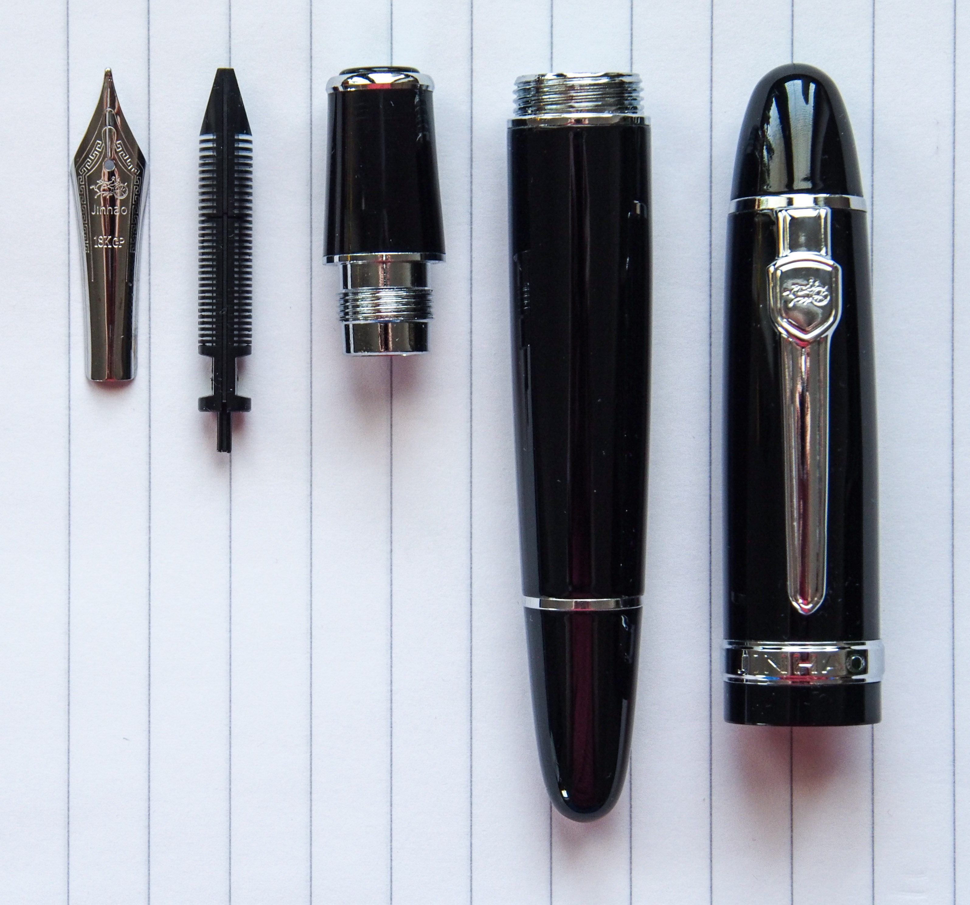 Disassembled Jinhao 159 fountain pen made by Jinhao China (left to right): nib, feed, section, barrel, and cap. The pen dimensionally resembles the Montblanc 149, but is made of lacquered brass instead of "precious resin" plastic Montblanc uses for their 149. This fountain pen is delivered with an international standard sized converter for use with bottled ink. The pen can use standard international short and long ink cartridges as an alternative for bottled ink.